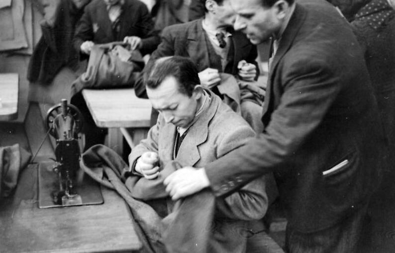 GhettoLitzmannstadt, workers in one of the clothing workshops.